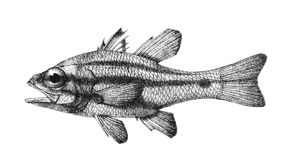 The species names / identity need verification. The original plates showed the fishes facing right and have have been flipped here. Apogon kalasoma